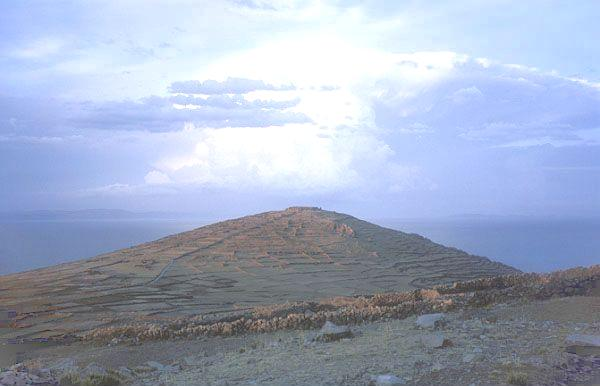 Mountain Pachatata, Iland Amantani, Titicacasee, Peru